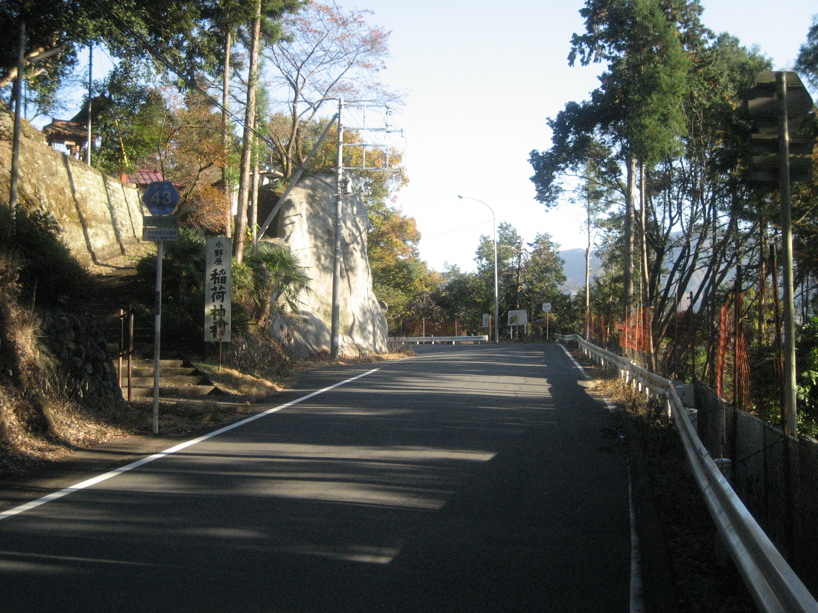 The Saitama Prefectural Road Route 43 in Chichibu City